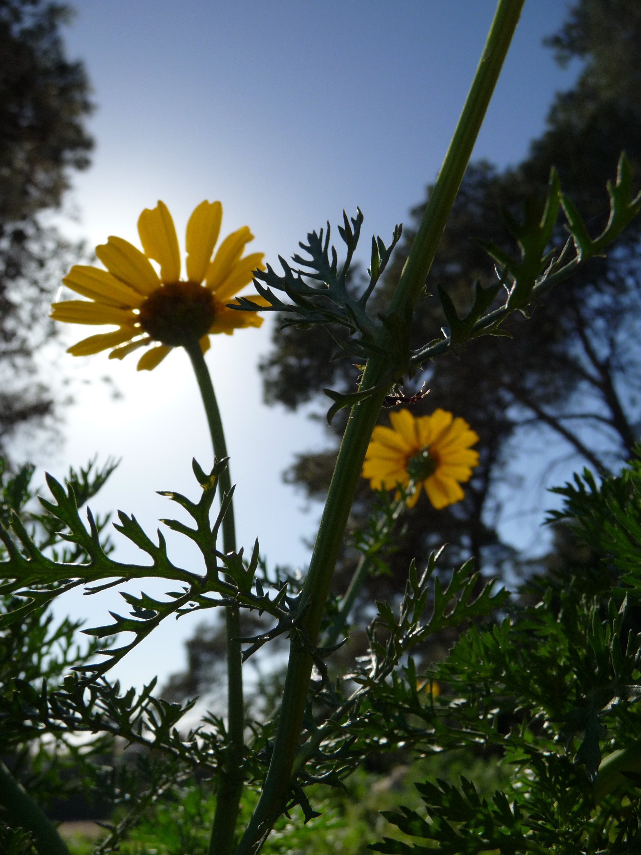 Beit Oren is a kibbutz in northern Israel. It falls under the jurisdiction of Hof HaCarmel Regional Council.